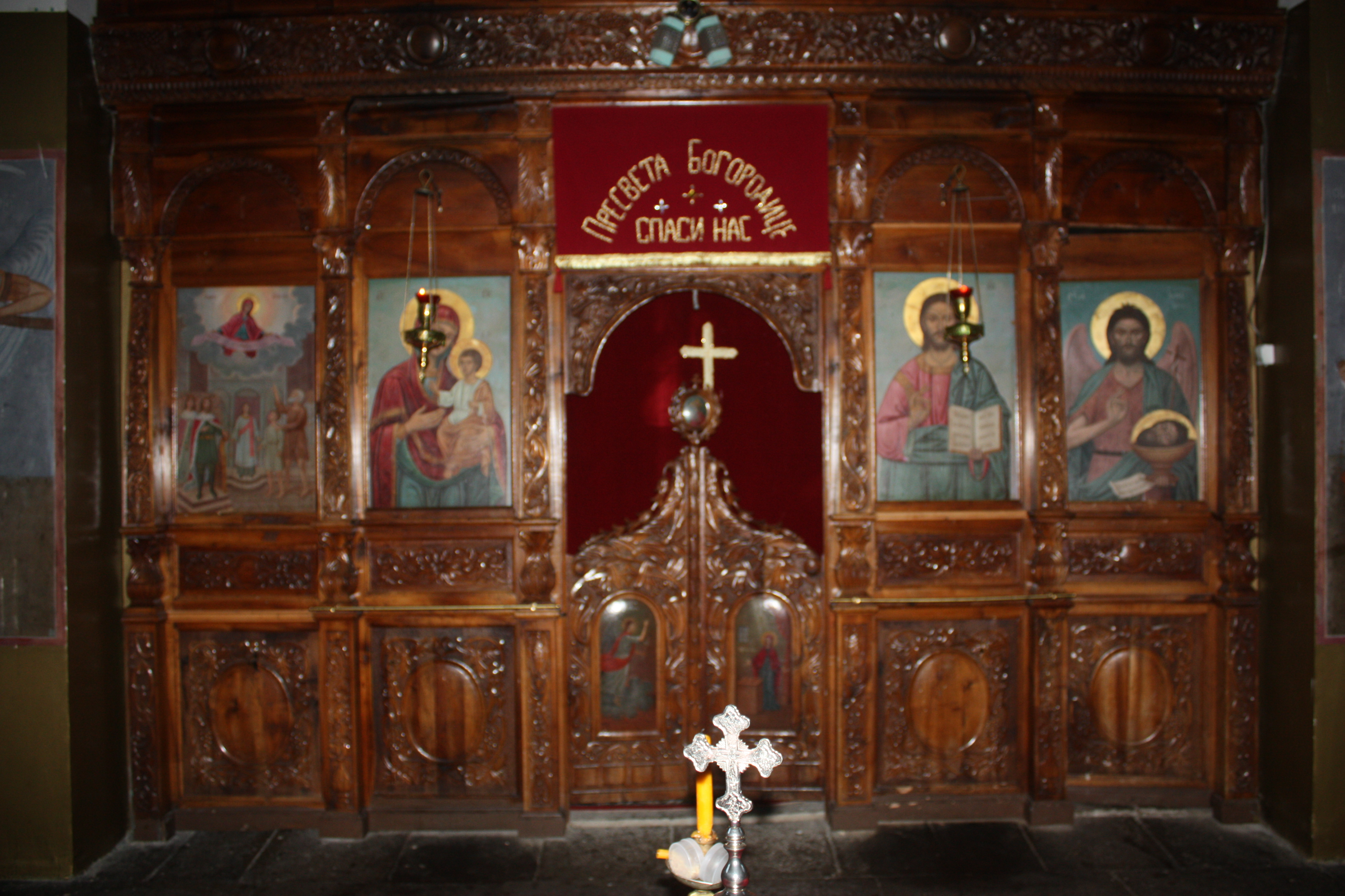 Čardak monastery, Mirkovci, Macedonia Ова е фотографија на споменик на културата во Македонија со типски код: E03This is a a photo of a cultural monument in North Macedonia with type id: E03